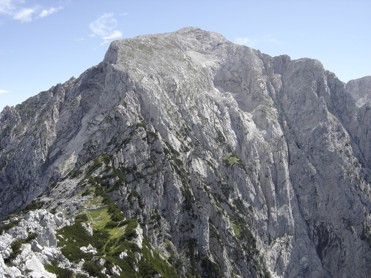 Hoher Göll photographed from trail above the Kehlsteinhaus